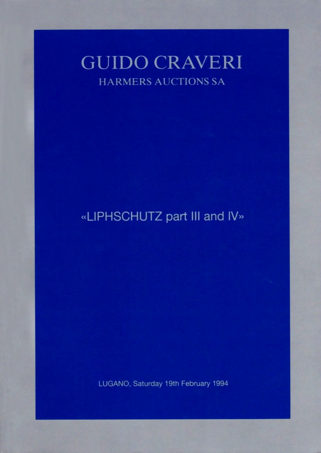 Michel Liphschutz part III & IV auction catalogue.